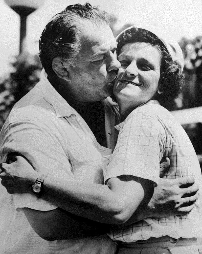 1975 Press Photo George Zaharias and Babe Didrikson - mja83022